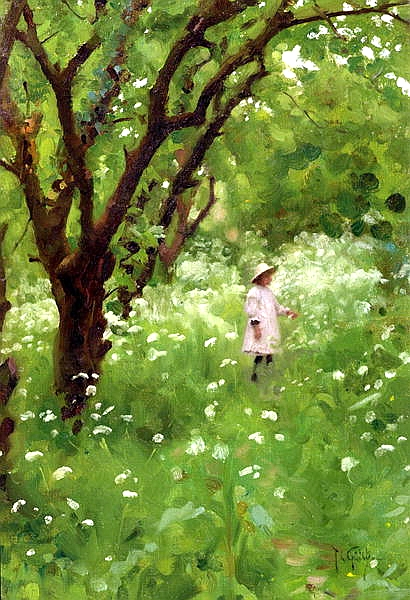 The Orchard